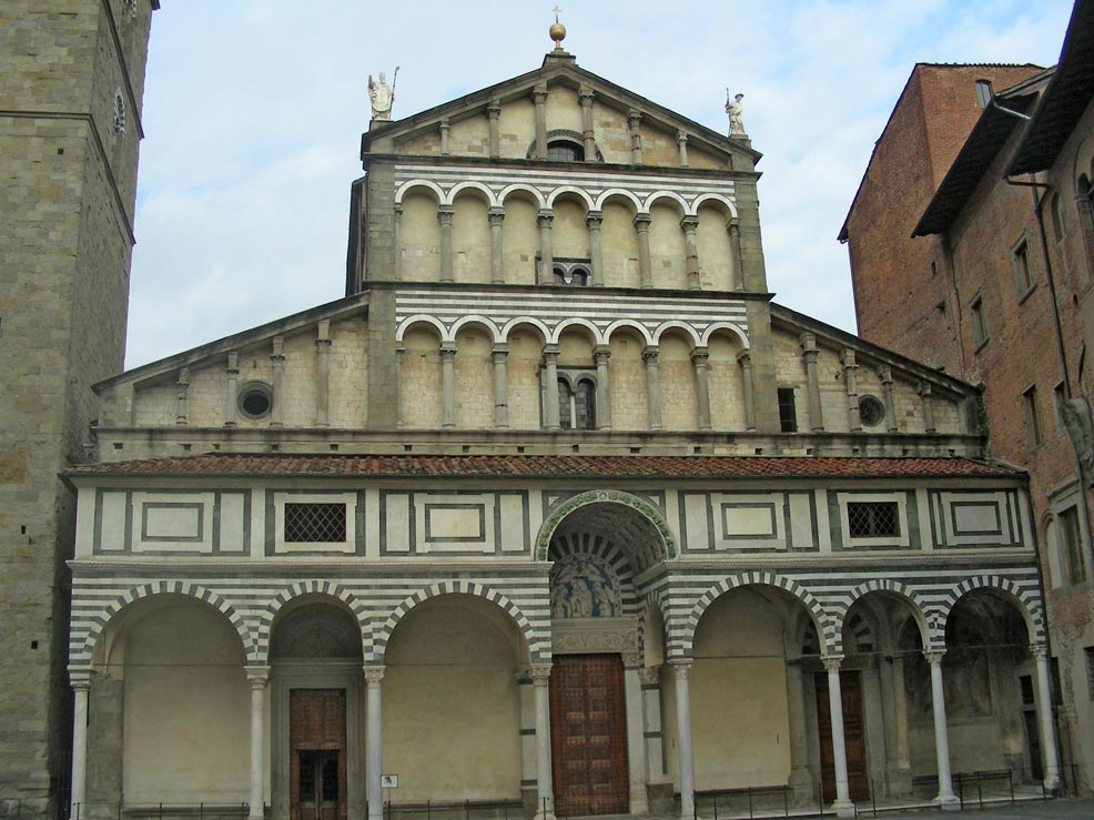 Italy, Pistoia, Cathedral, prospect